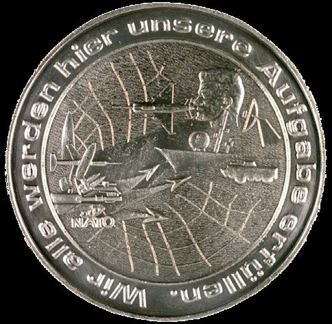 This is VA agency memory coin.